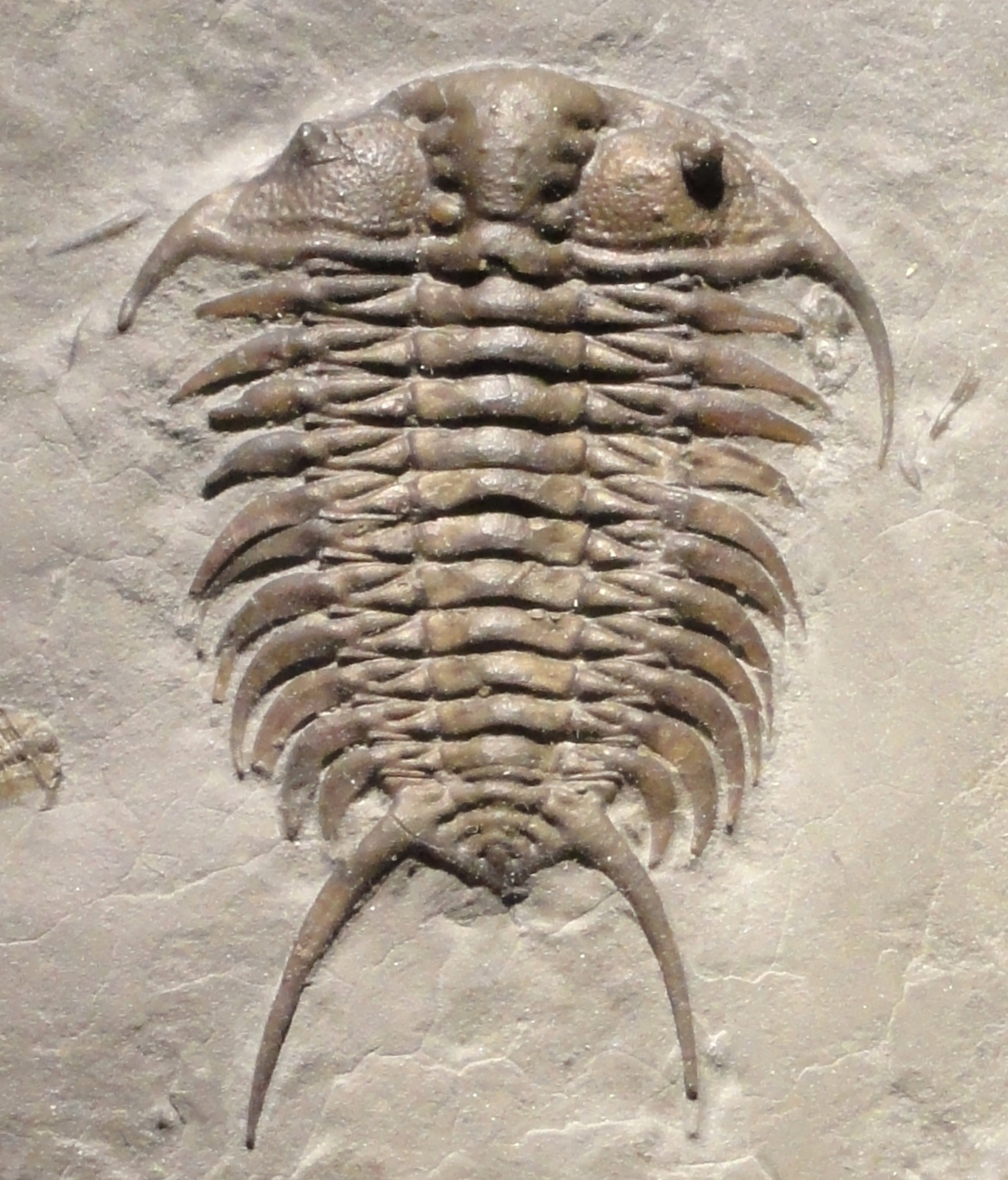 Cropped image of taxon in file name